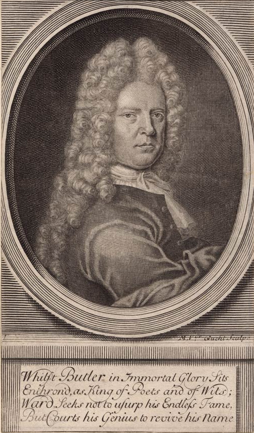 Ned Ward